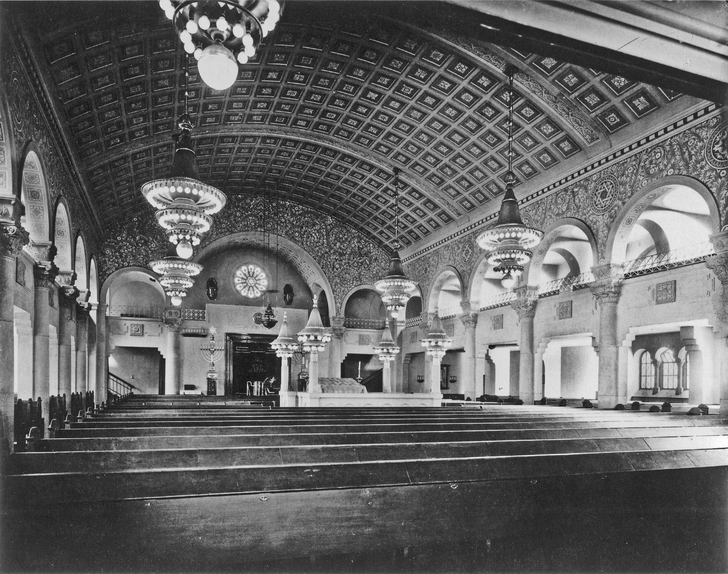 Interior of the Ez Chaim Synagogue in Leipzig, Apels Garten 4 (originally Otto-Schill-Strasse 6—8), destroyed 9./10. November 1938